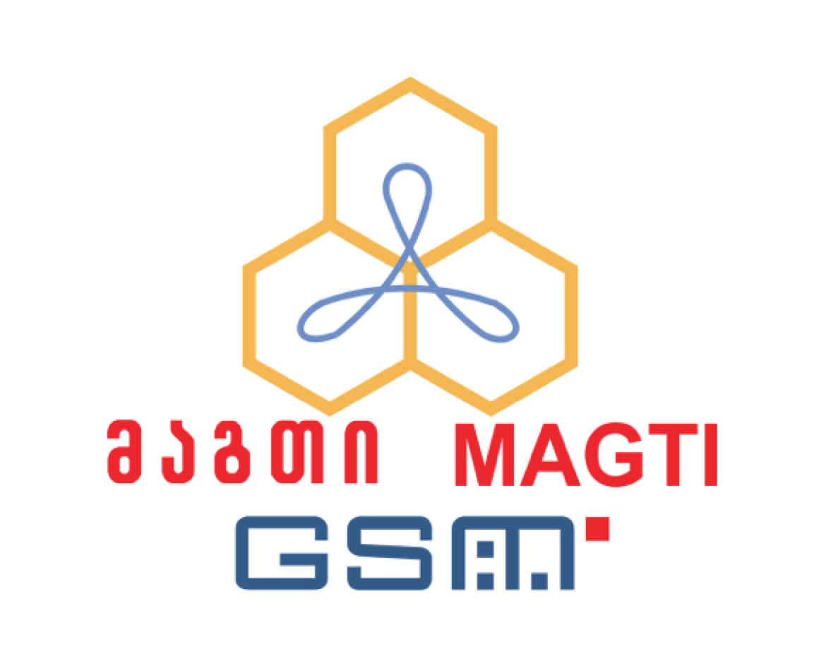 Magti GSM logo 1997